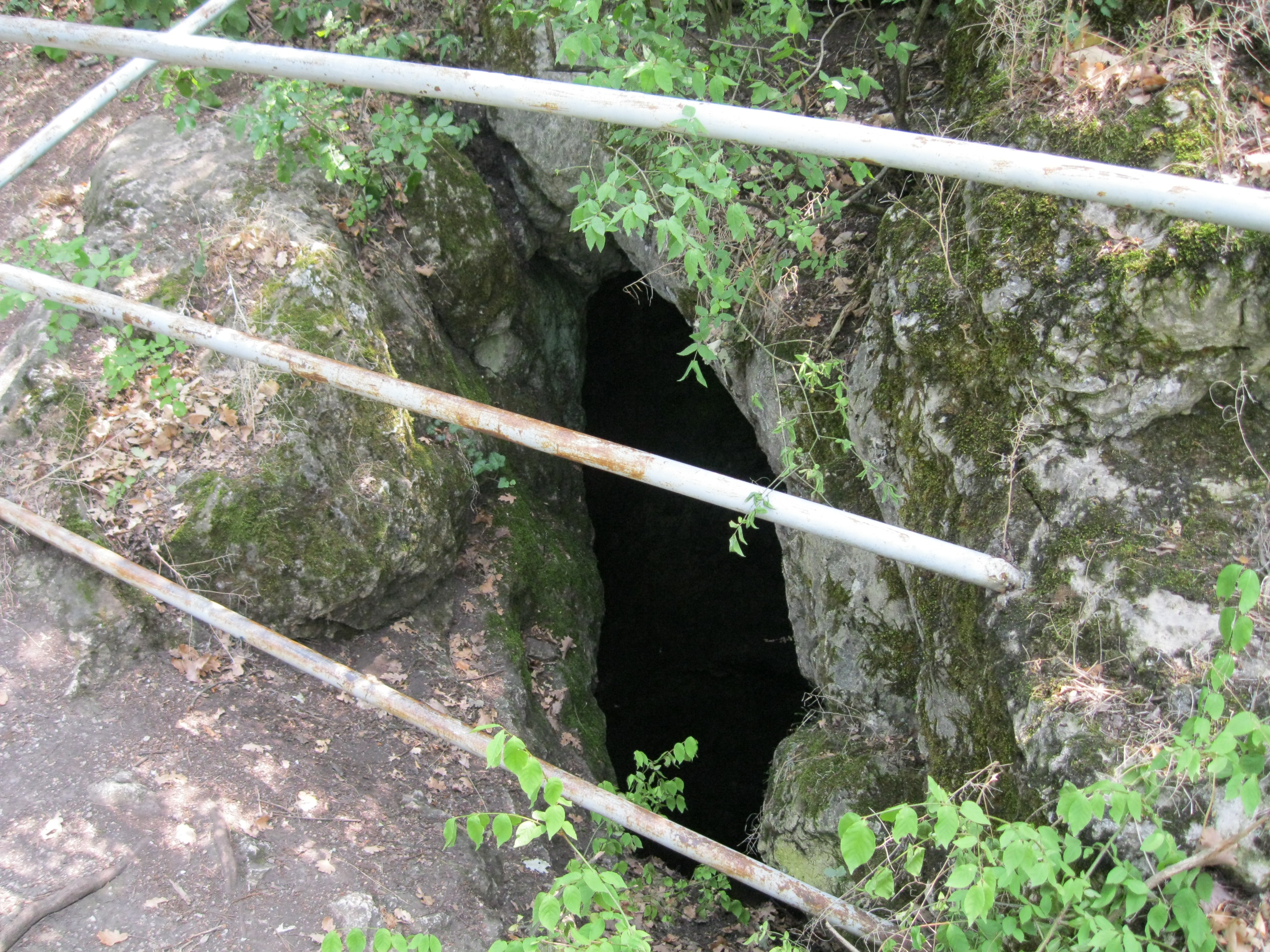 Entrance of the Erdőhát út Cave